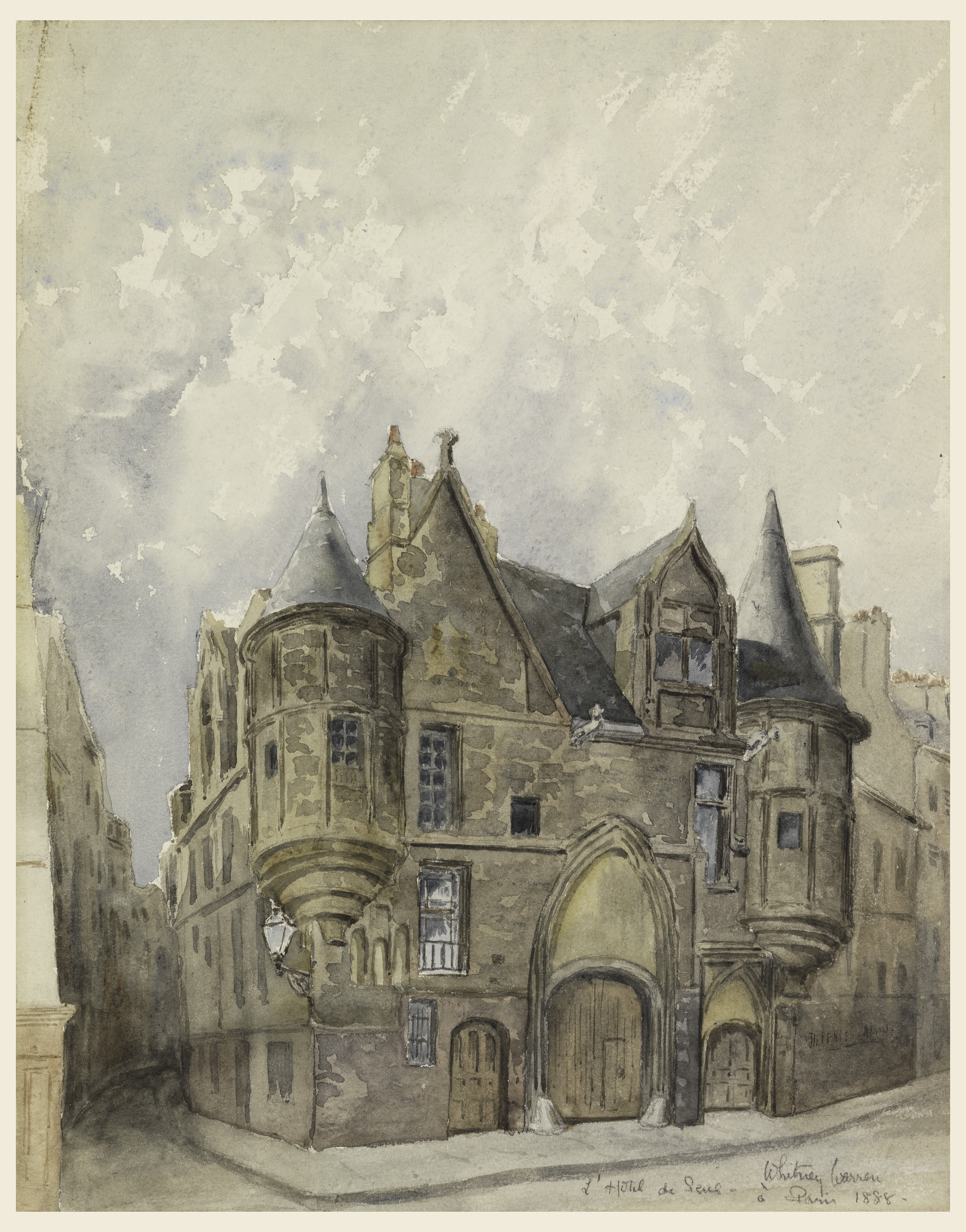 View showing the hotel from the corner. Shows the front facade and part of the left side.